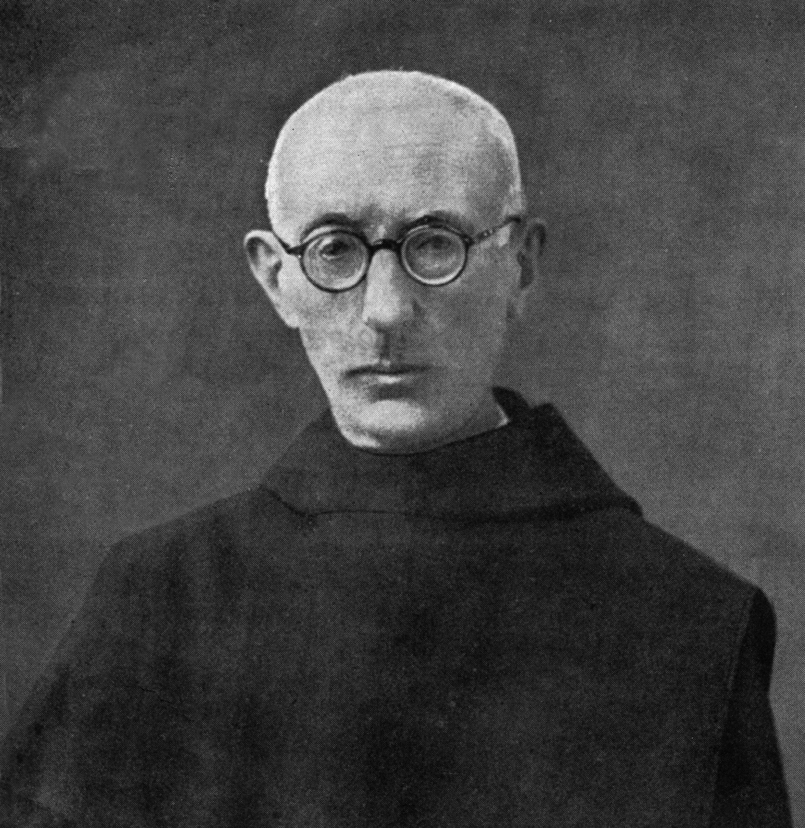 Joseph Gredt (1863-1940), Luxembourgish Benedictine theologian.